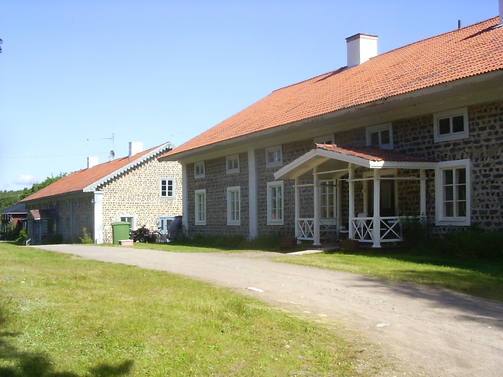 Svabensverk, houses built of slag stone